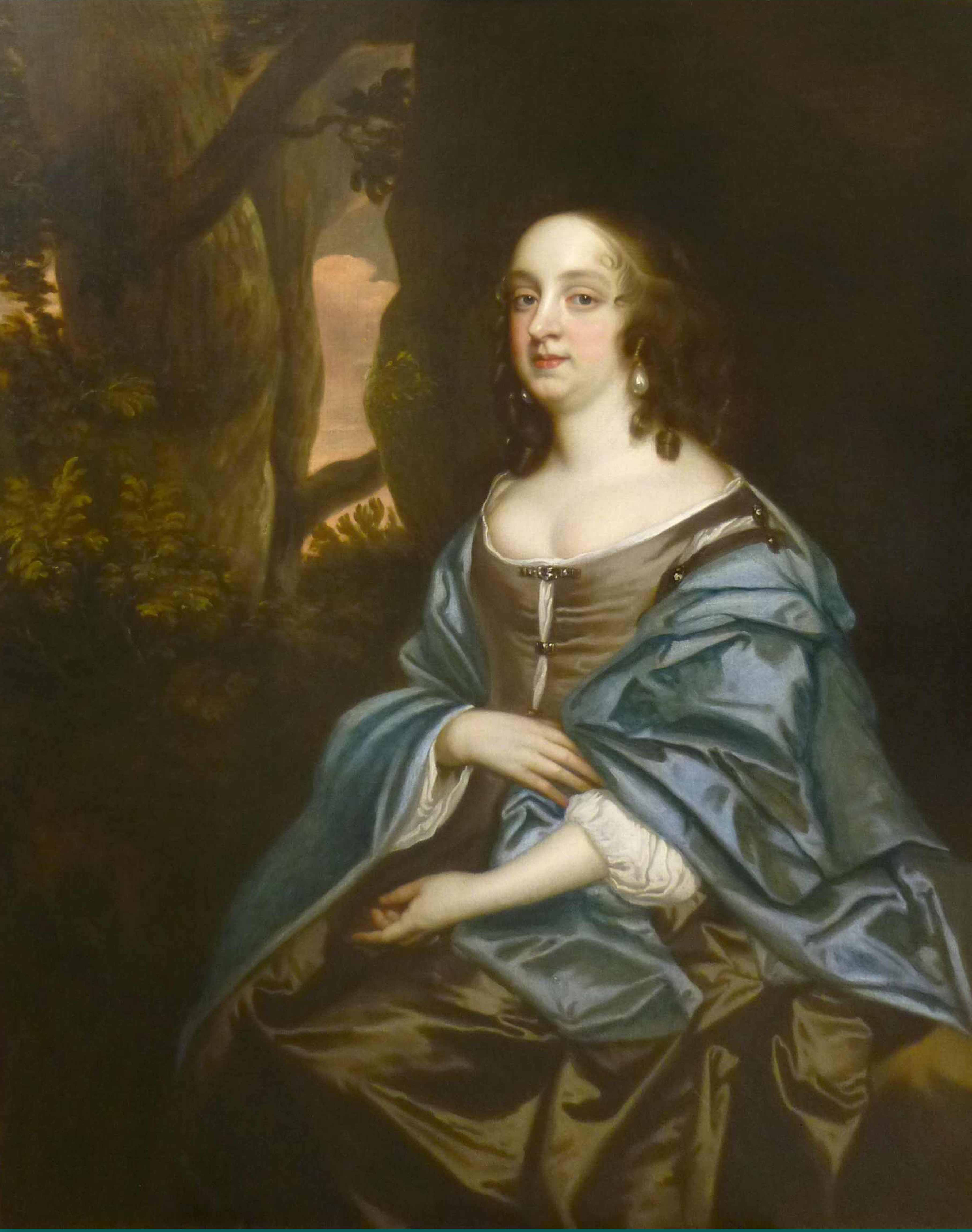 Sir Peter Lely and Studio (1618-1680) Portrait of Judith Pelham, later Lady Monson Oil on Canvas Canvas size: 50×40 inches (127×101.5 cm) Framed size: 59×49 inches (150×124.5 cm)